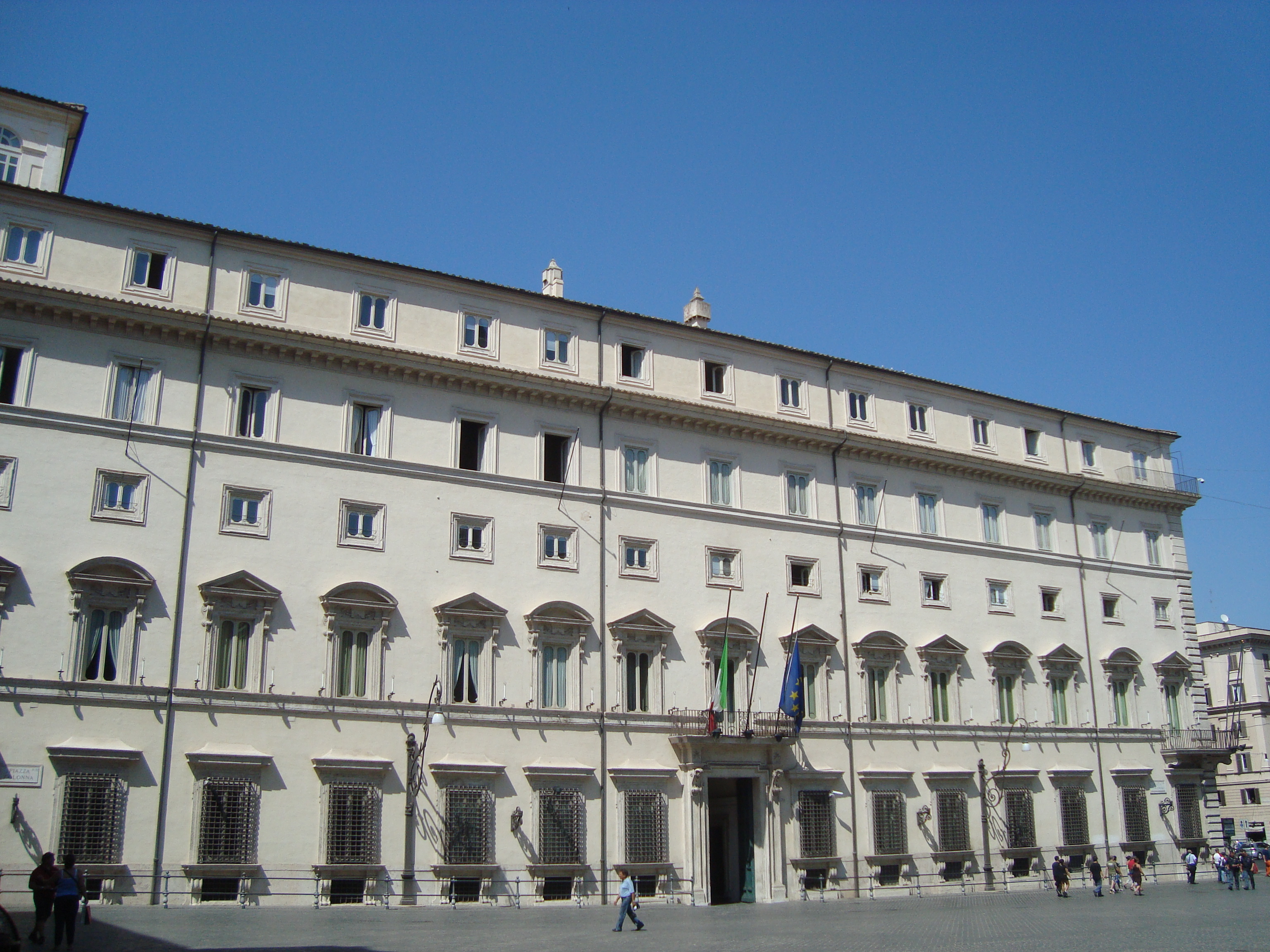 The palazzo Chigi at piazza Colonna in Rome. This is the official building of the italian presidency of the Council of ministers.